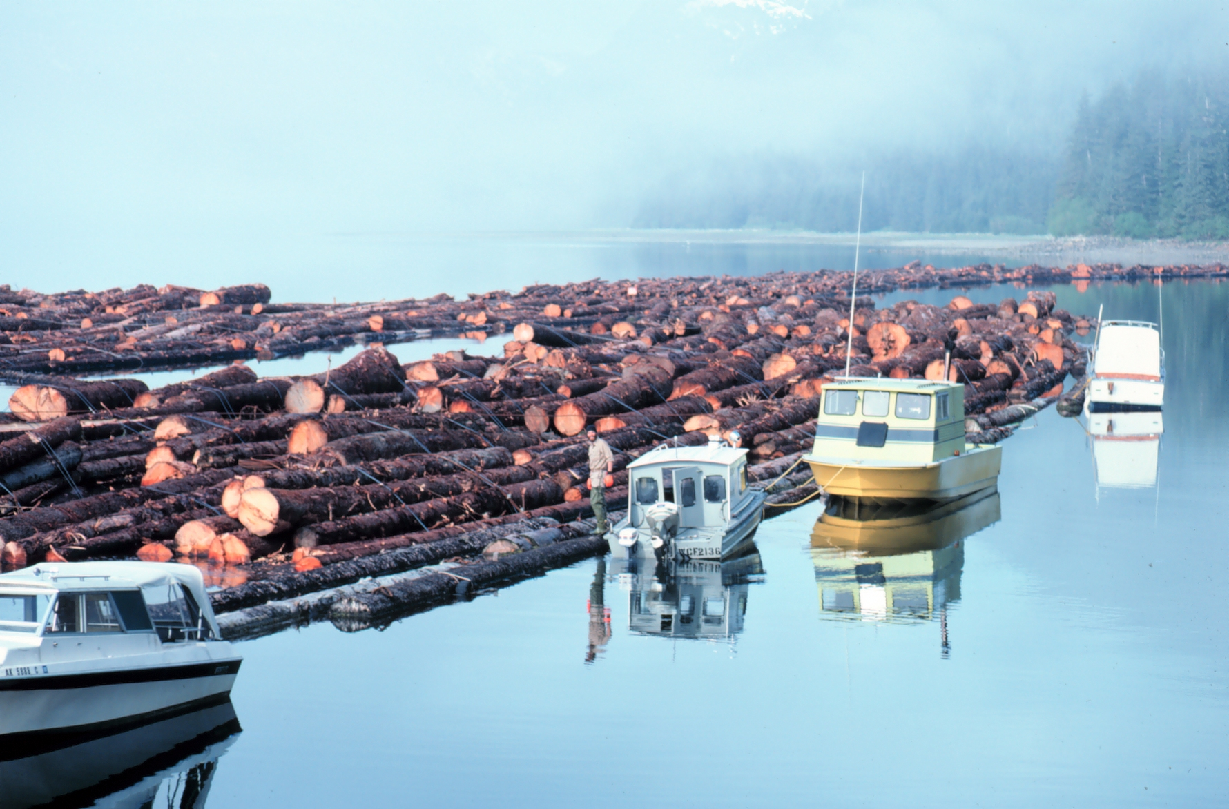 Logs rafted for towing. Lt.(j.g.) Tuell standing on raft. Image ID: line0122, NOAA's America's Coastlines Collection Location: Alaska SE, Eight Fathom Bight, Port Frederick Photo Date: 1981 May Photographer: Commander Grady Tuell, NOAA Corps This image is a work of the National Oceanic and Atmospheric Administration, taken or made as part of that person's official duties. As works of the U.S. federal government, all NOAA images are in the public domain.